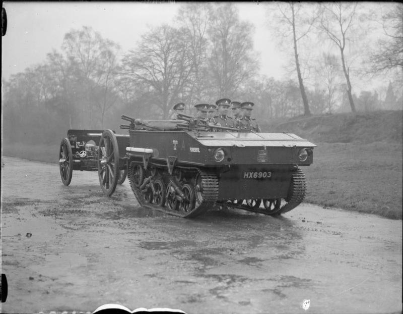 The British Army in the United Kingdom 1939-45 Dragon artillery tractor and 18-pdr field gun of 46th Field Battery, Royal Artillery, Pirbright, May 1940.